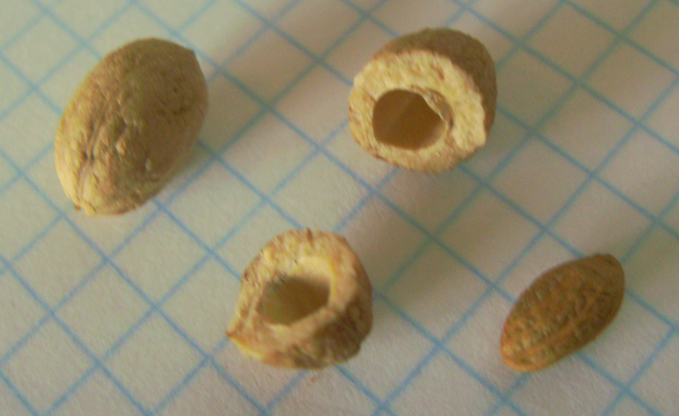 The seed entire and broken showing the "almond" of one olive. Cultivar Arbequina from Castelltallat, Catalonia